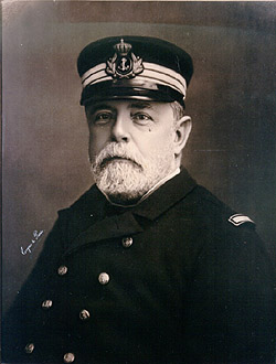 Portrait of Spanish Admiral Pascual Cervera y Topete (1839-1909)